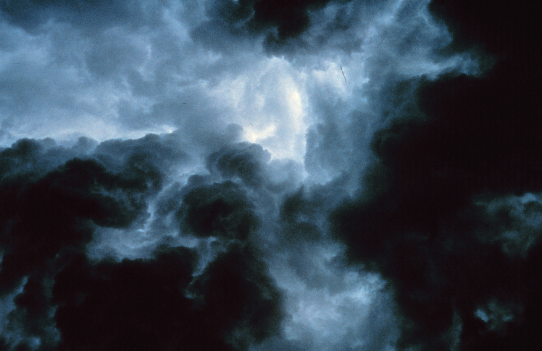 Turbulent gust front clouds.